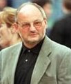 Zlatko Mateša